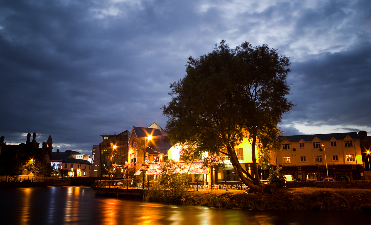 Sligo, on a June night, looking down the Garavogue river from the new bridge at Rockwood Parade